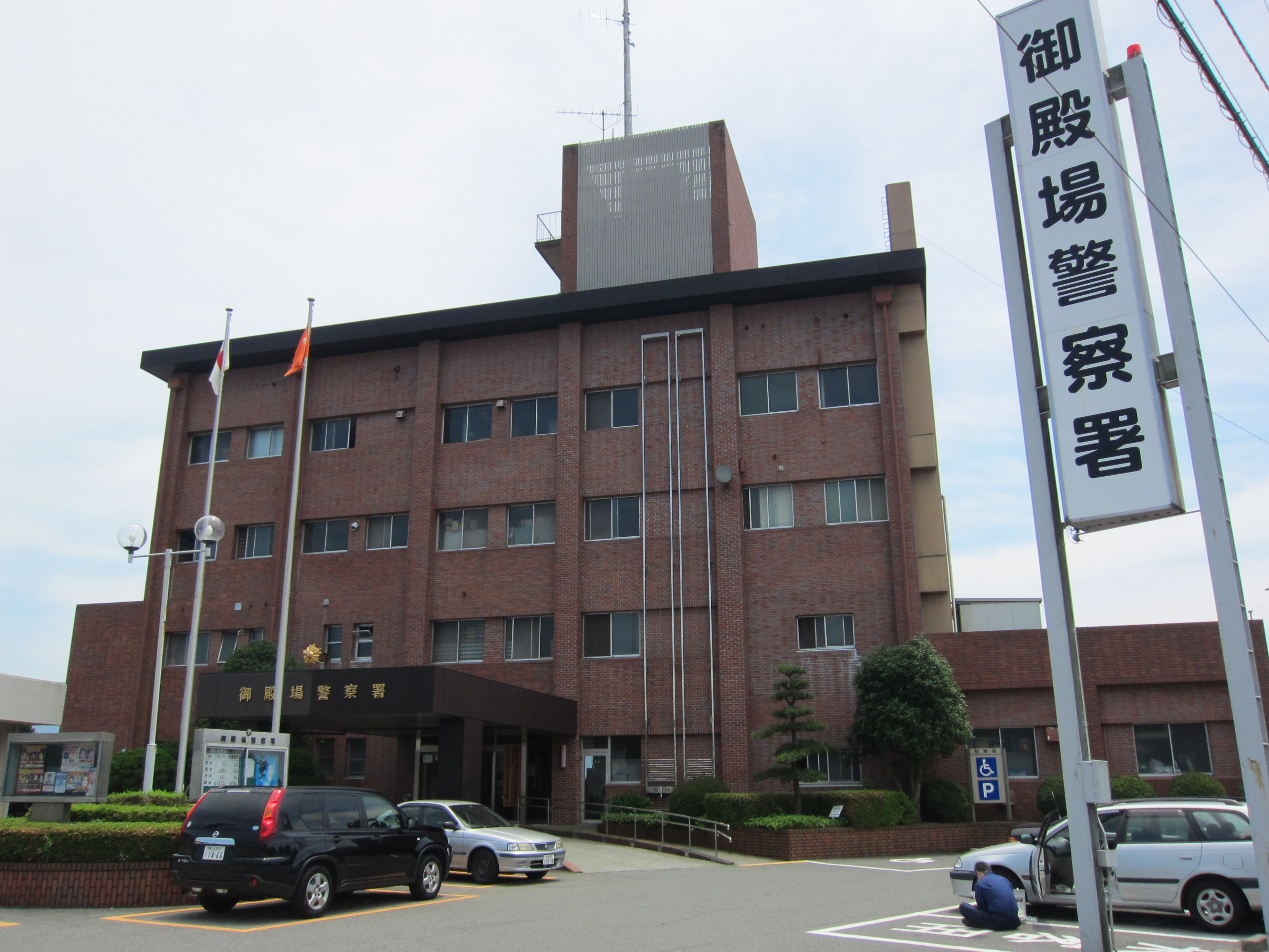 Gotenba Police Station